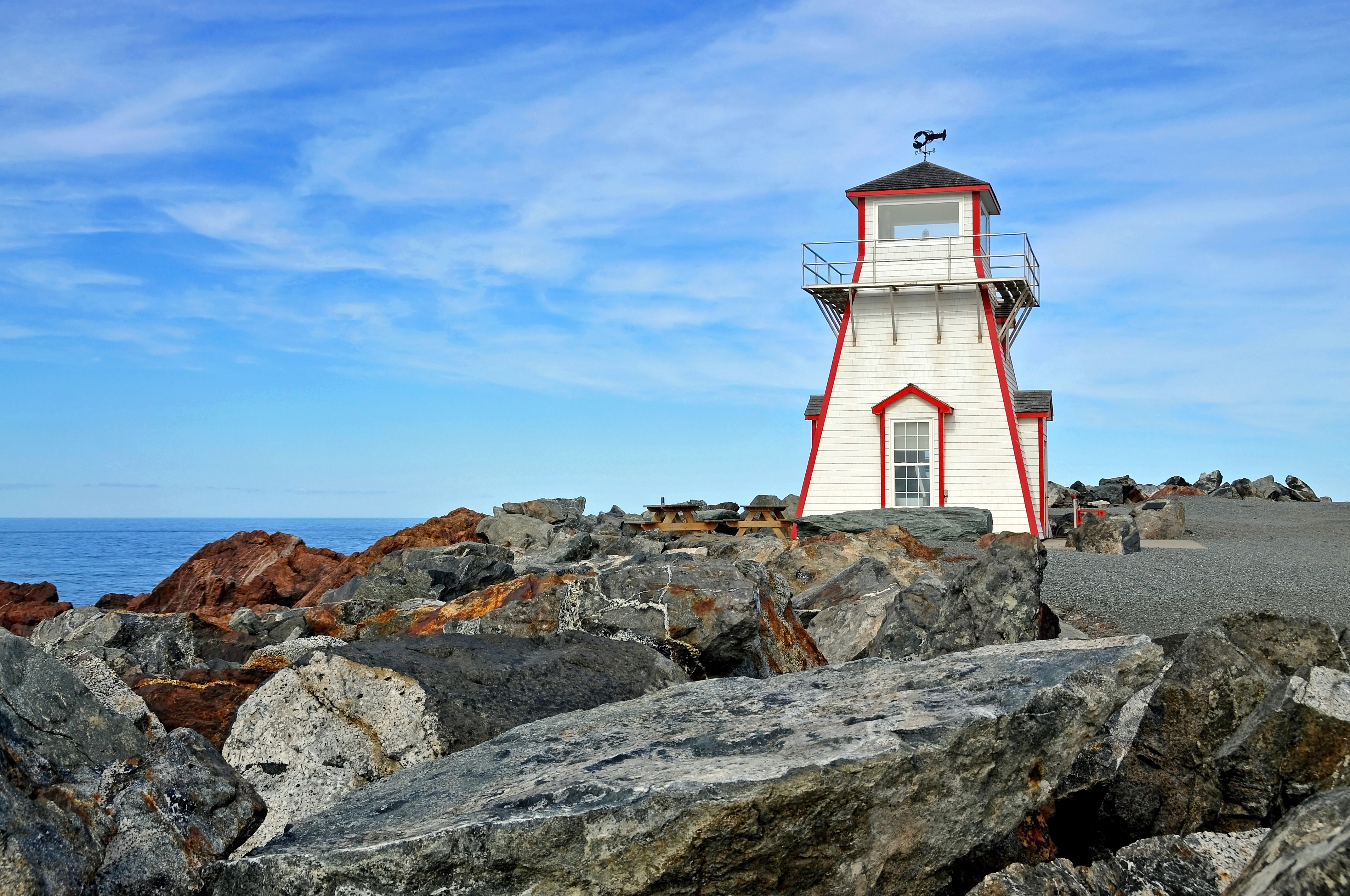 The Arisaig Lighthouse is a replica of the original Arisaig Point Lighthouse, which burned in the early 1930s. In 2007 community volunteers built a replica of the Lighthouse using the original plans as a guide. Arisaig Light - In 1895 a lamp attached to a high pole was erected to navigate boats to and from the Arisaig Wharf; in 1898 a lighthouse was built. A white square wooden tower with four sloping sides, 32 feet high, showing a fixed red light, 40 feet above sea level; visible for seven miles. There were only three keepers of this light. In the late 1930's while lighting the lamp, the lamp caught fire destroying the lighthouse. The government did not replace the building. Arisaig, Nova Scotia, Canada Where: Arisaig, Nova Scotia, Canada Location: Northumberland Strait, Sunrise Trail Tower Height: 9.14m (30ft) Description Tower: White, square wooden tower. Operational: Yes as of April, 2011 Date Established: 1898 Current Use: Original Destroyed Characteristic Range: Fixed red; range 7 nautical miles. Height Focal Plane: 12.19m (40ft) National Register: No Keepers: Hugh R. MacAdam (1898-?), Alexander MacDonald (his wife became keeper when Alexander died)